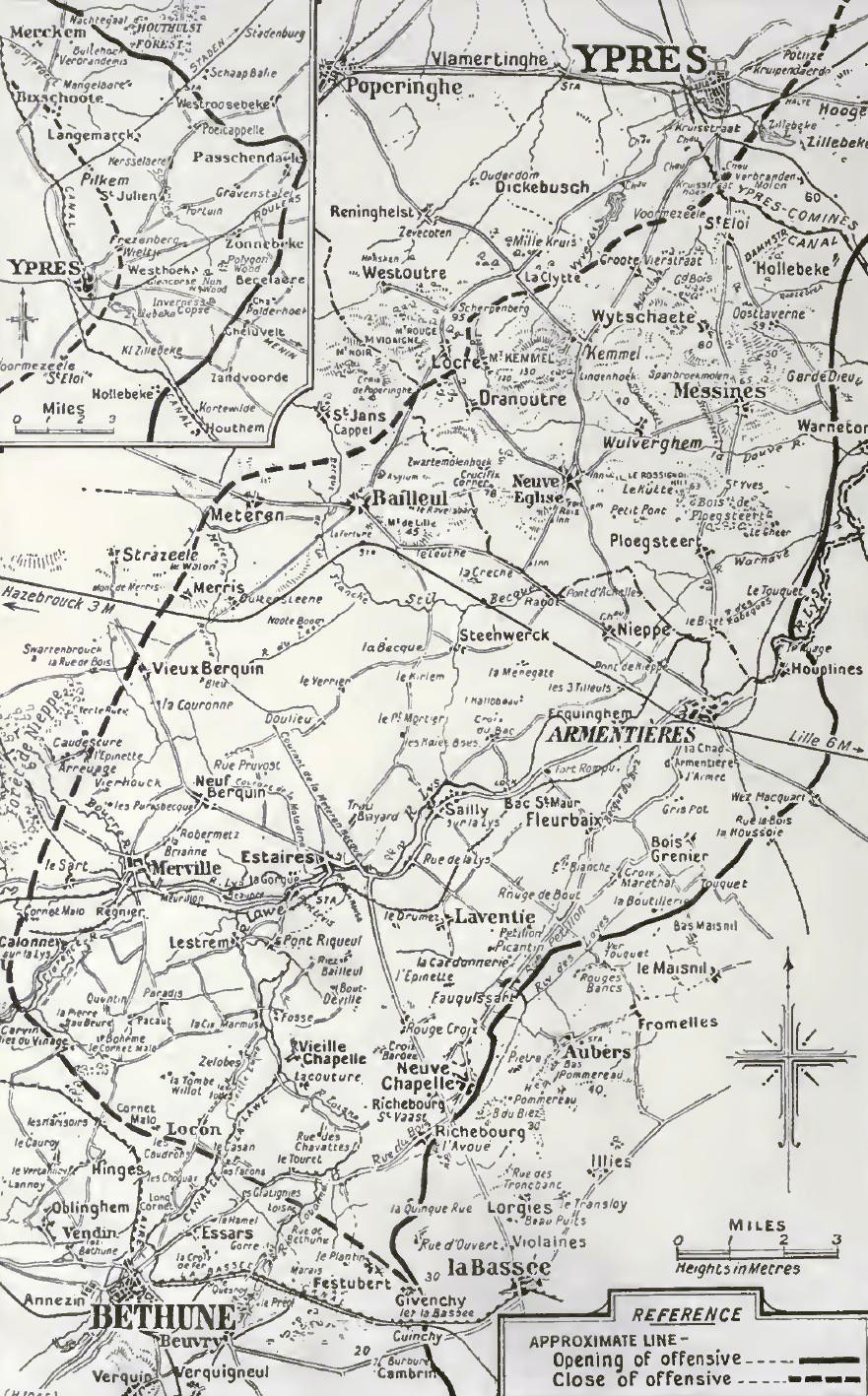 Battle of the Lys,1918